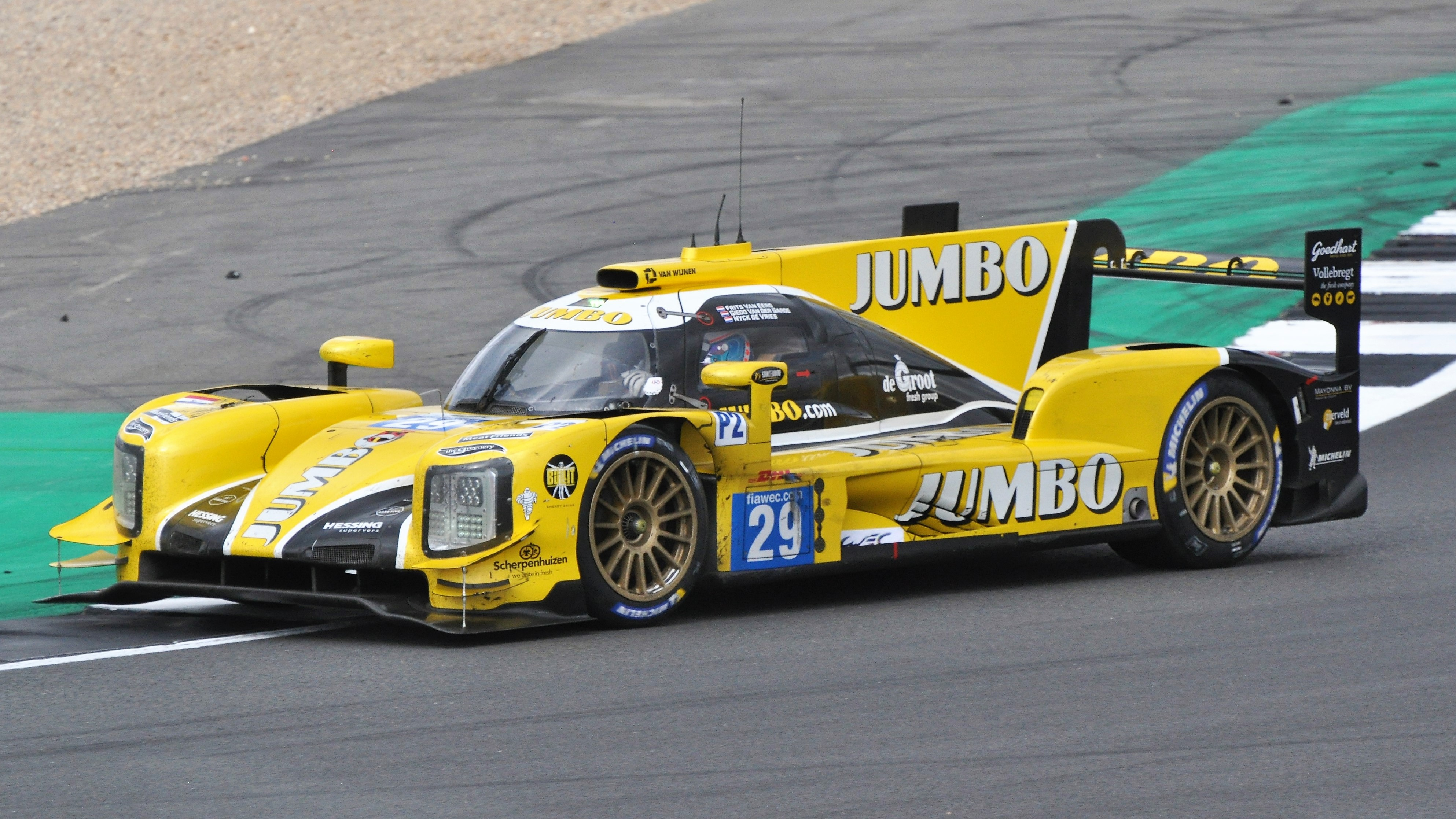 Dutch driver Nyck de Vries slips the Racing Team Nederland-entered Dallara P217 in to Club corner during the 2018 6 Hours of Silverstone race. De Vries and his co-drivers, compatriots Frits van Eerd and Giedo van der Garde, finished fifth in the LMP2 class.